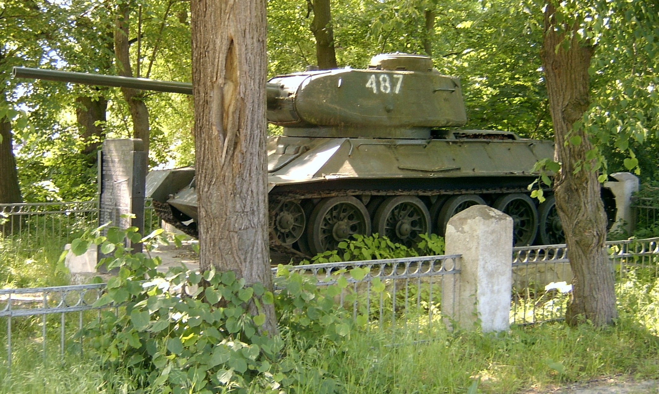 Memorial for soldiers of the Red Army dying in World War II with a tank T-34 in Kunowice, Poland.